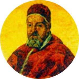 Portait of Pope Urban VIII in the Basilica of Saint Paul Outside the Walls, Rome